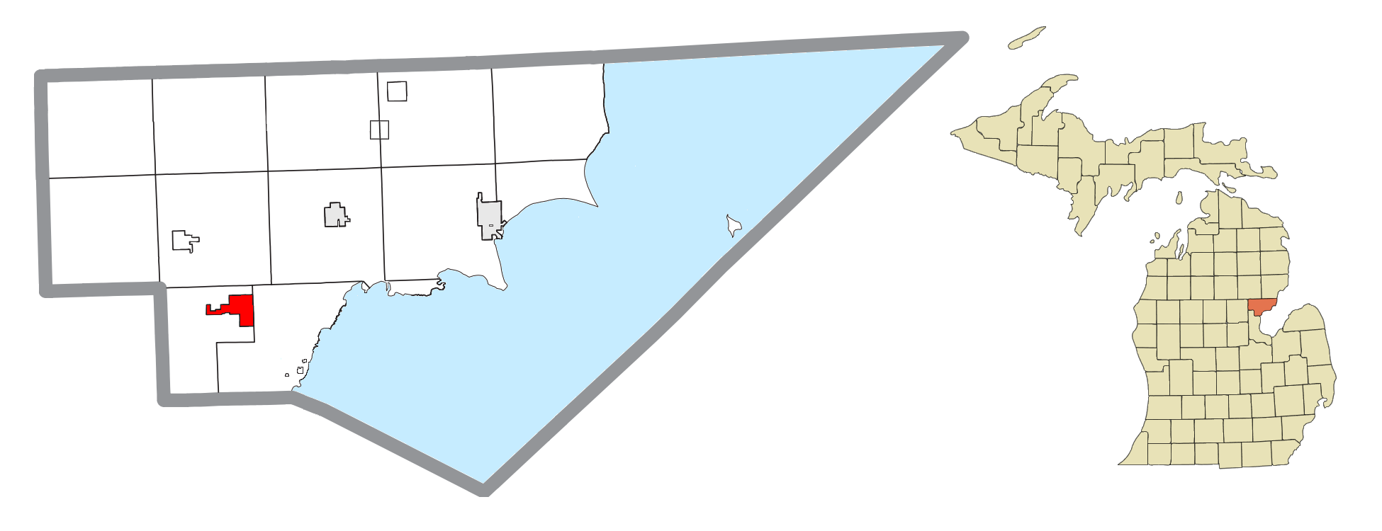 Standish, MI